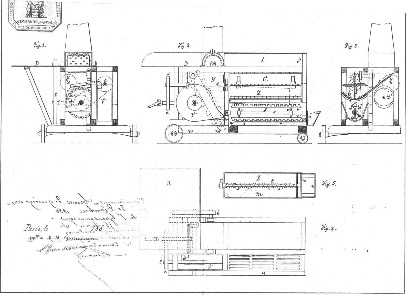 threshing machine